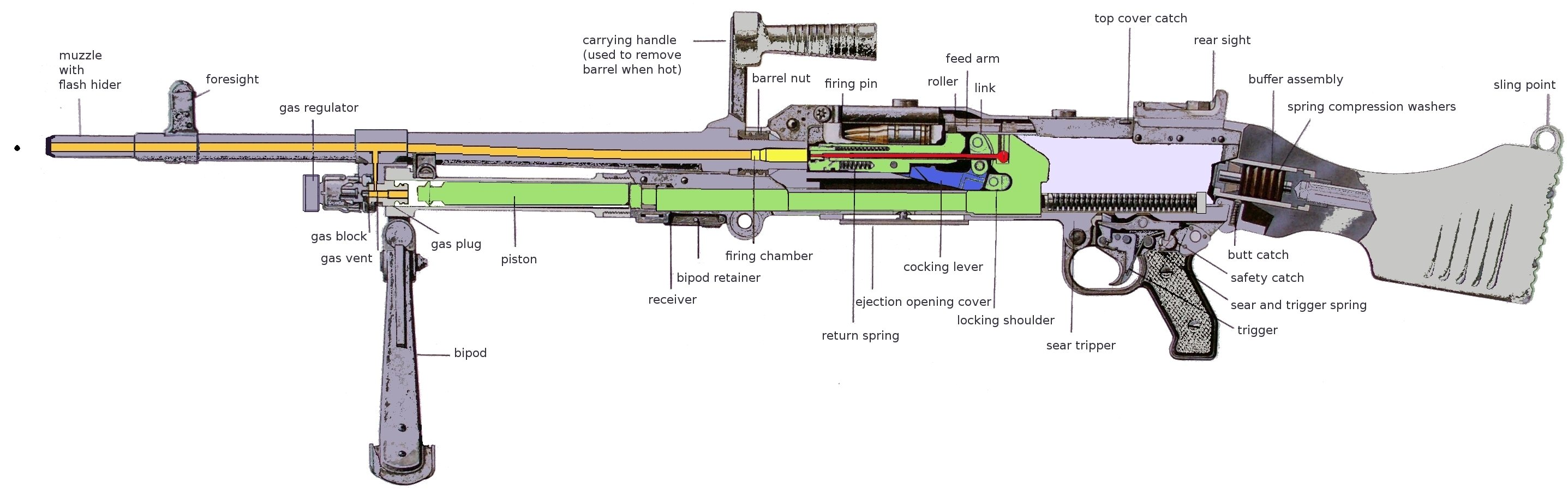 A schematic showing the mechanism of the FN-MAG general purpose machine gun.